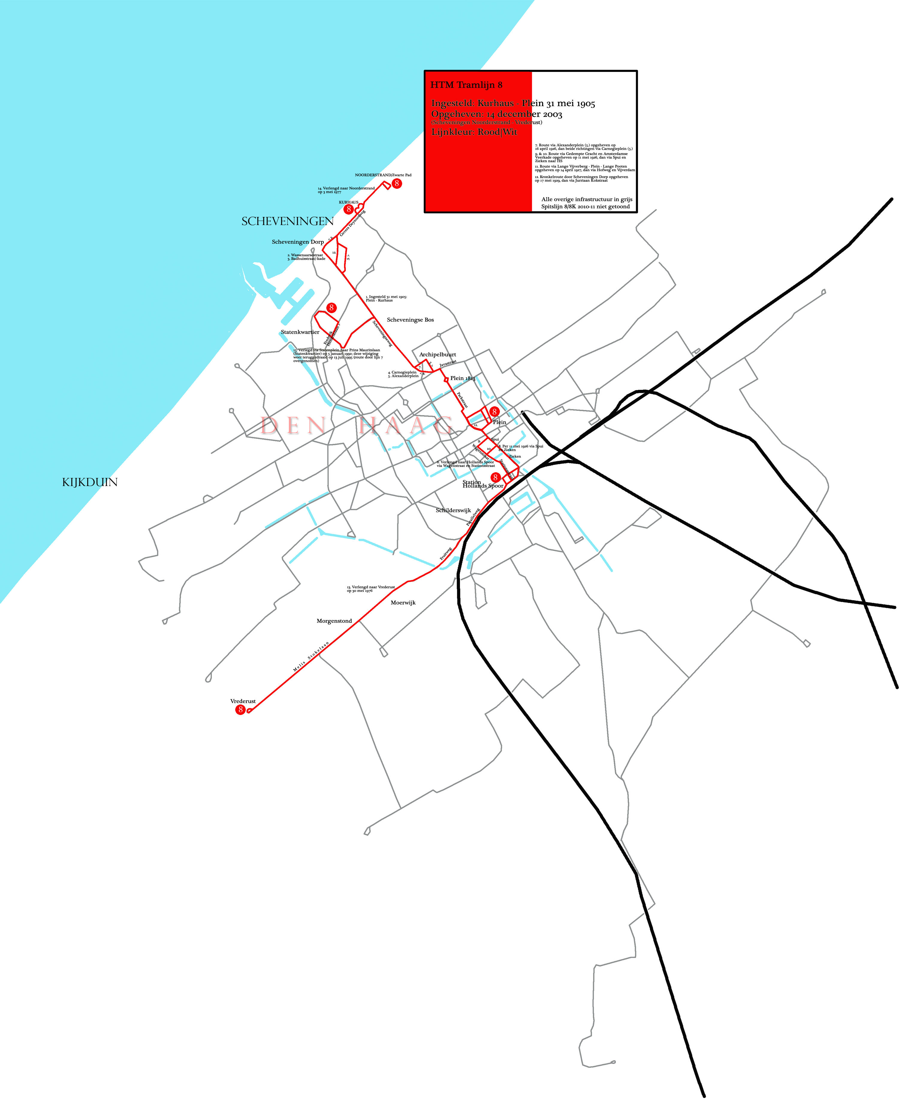 Tram route 8, The Hague, map.